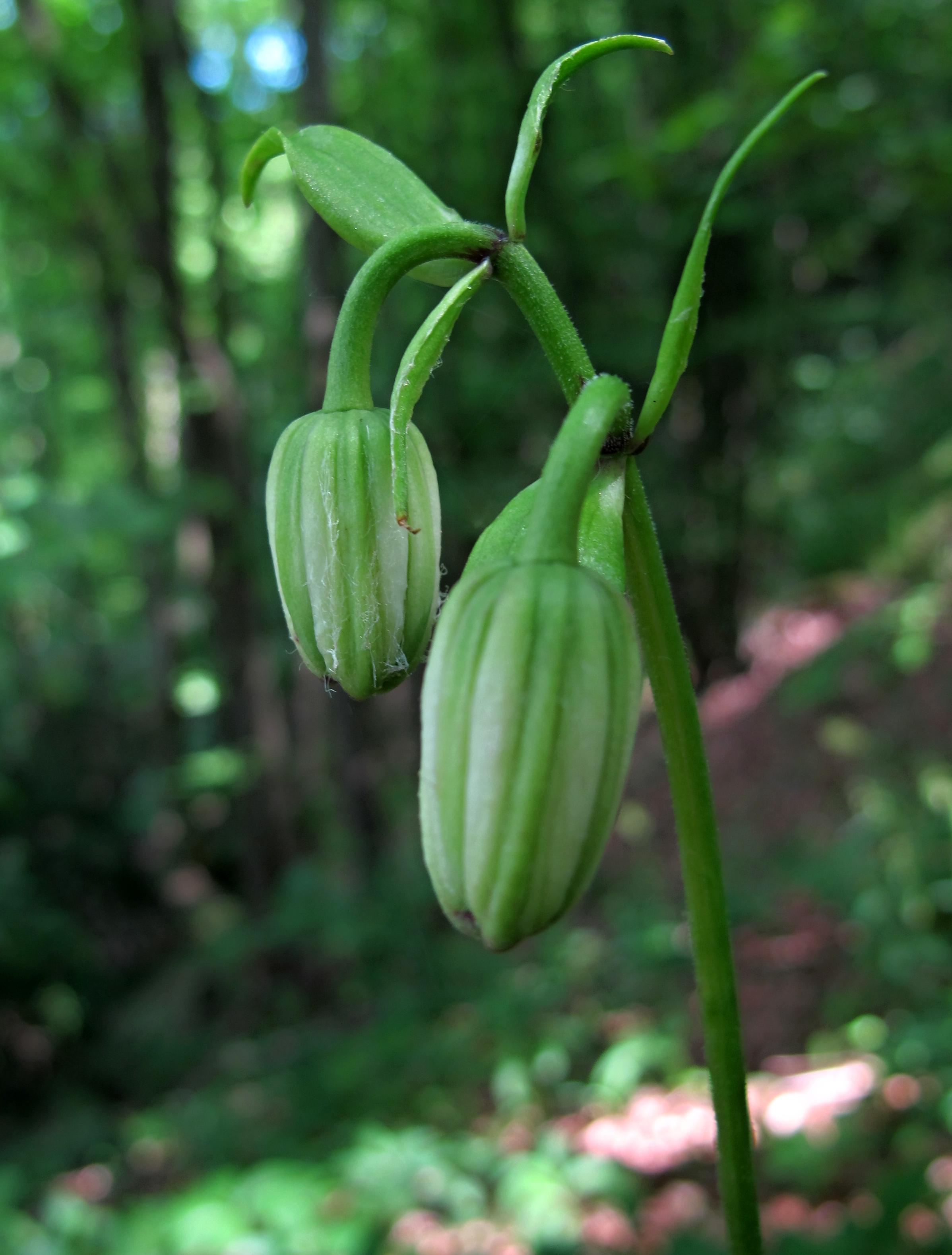 Lilium martagon in national nature reserve Drbákov-Albertovy skály near Nalžovické Podhájí in Příbram District